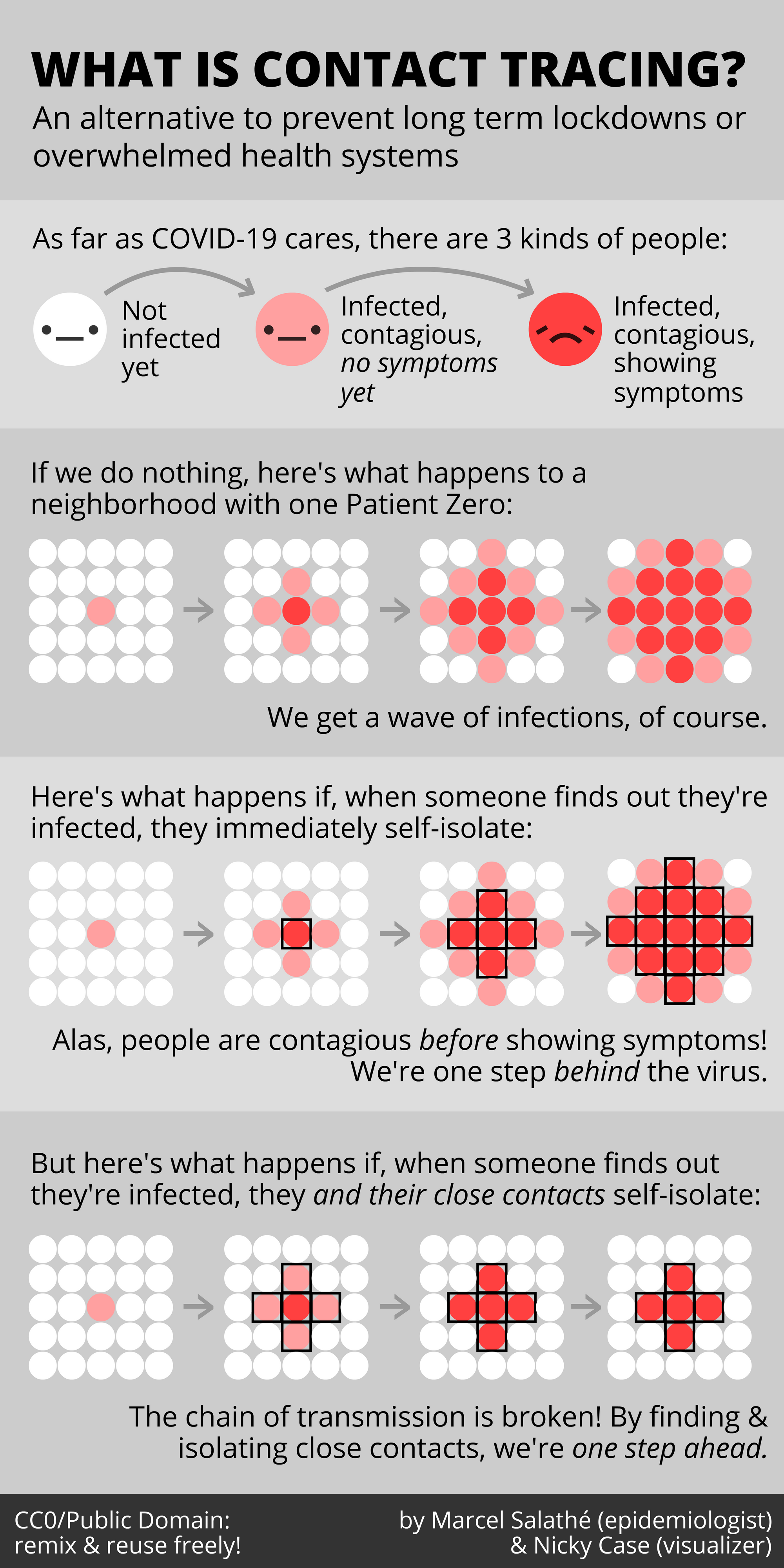 Singapore & South Korea have *already* controlled #COVID19, all without massive shutdowns! (& US/Europe can do the same AFTER suppressing cases for 1-2mo) How? By staying #OneStepAhead with: 🔗CONTACT TRACING🔗 😱COVID-19 is contagious *before* you feel sick 🔗But we can stay #OneStepAhead with contact tracing 🕵️‍♀️(that protects privacy) ⭐️And this gives me hope, determination & better mental health to power through this lockdown... so I can eat satay again soon. Source